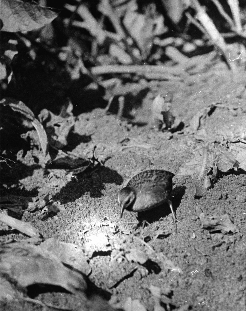 The photograph here shows a Laysan Rail taken by Alfred M. Bailey in 1913. (Bailey Library and Archives, Denver Museum of Nature and Science). All rights reserved).